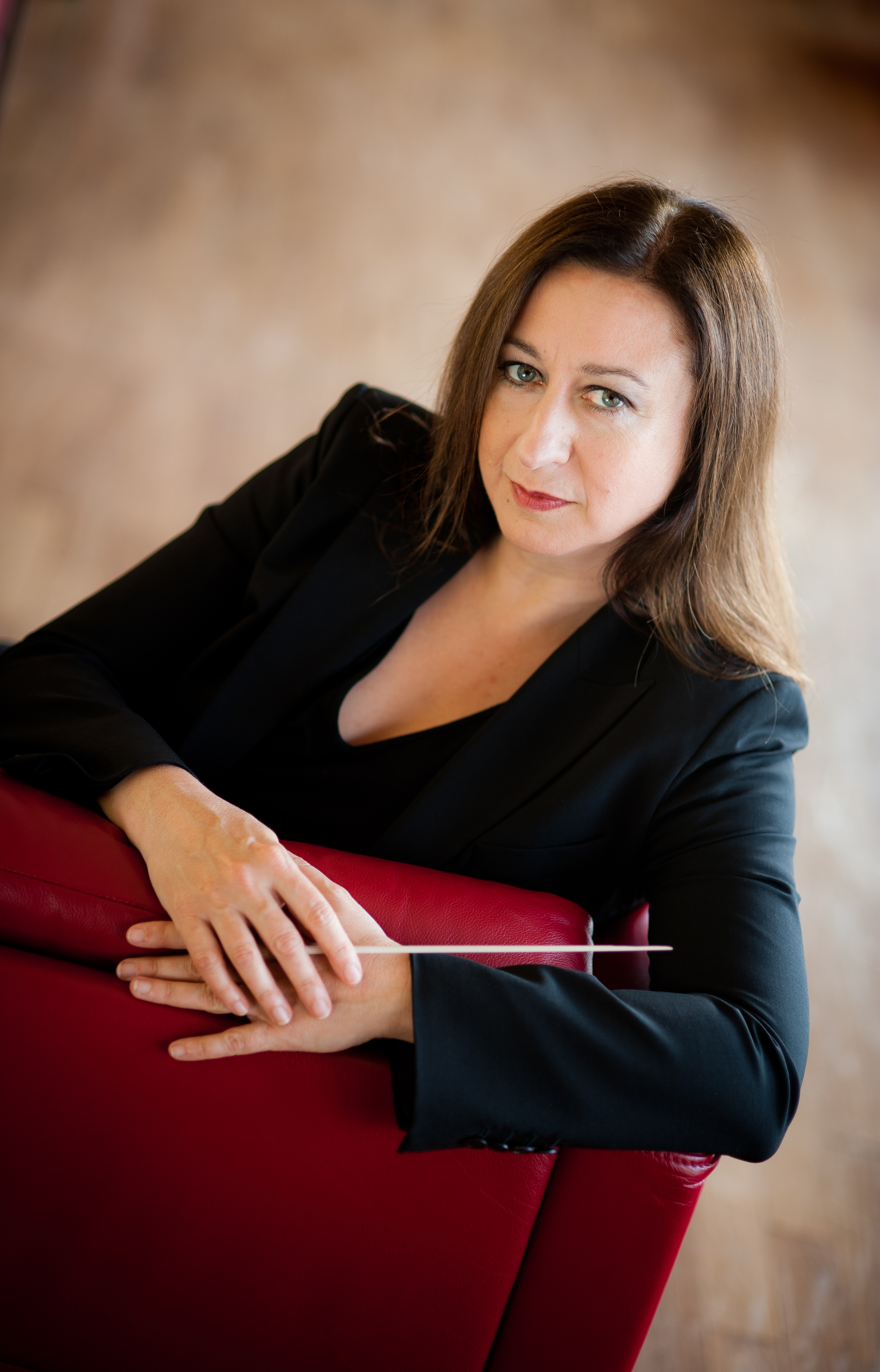 Portrait of the conductor Simone Young, taken in 2010 on behalf of the Hamburg State Opera, which is led by Simone Young.